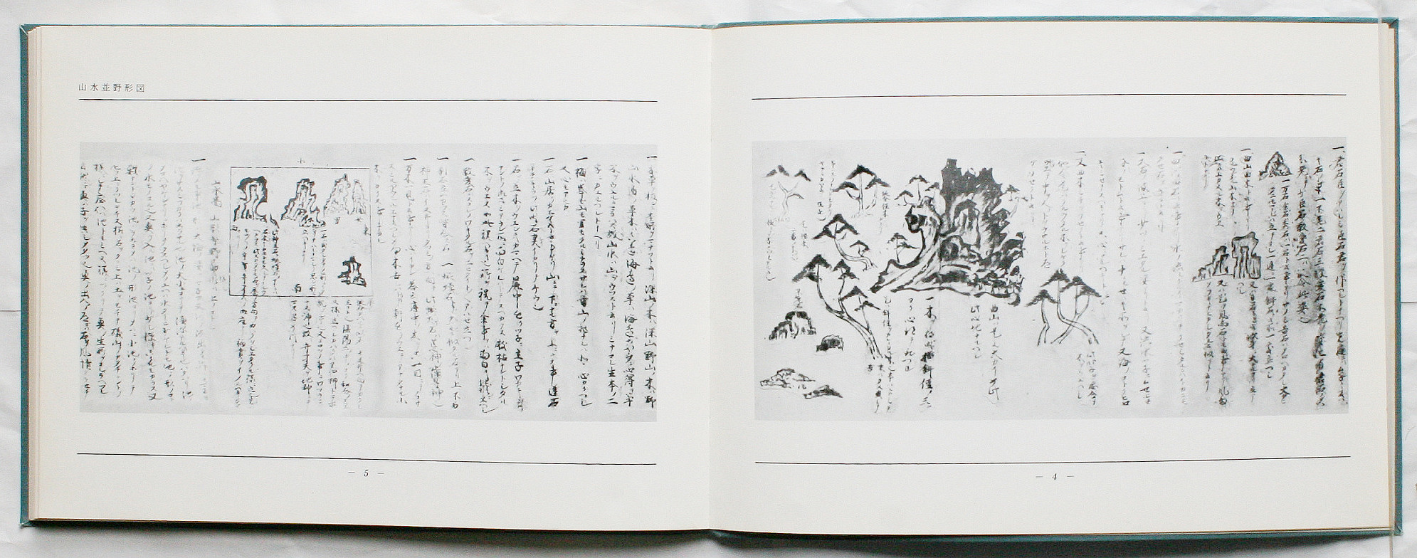 Landscape Garden Building Manuscript, Reprint as facsimile by photo process of the Manuscript in 15th century. Edited by UEHARA KEIJI, Published by KASHIMA SHOTEN, Tokyo, 1982